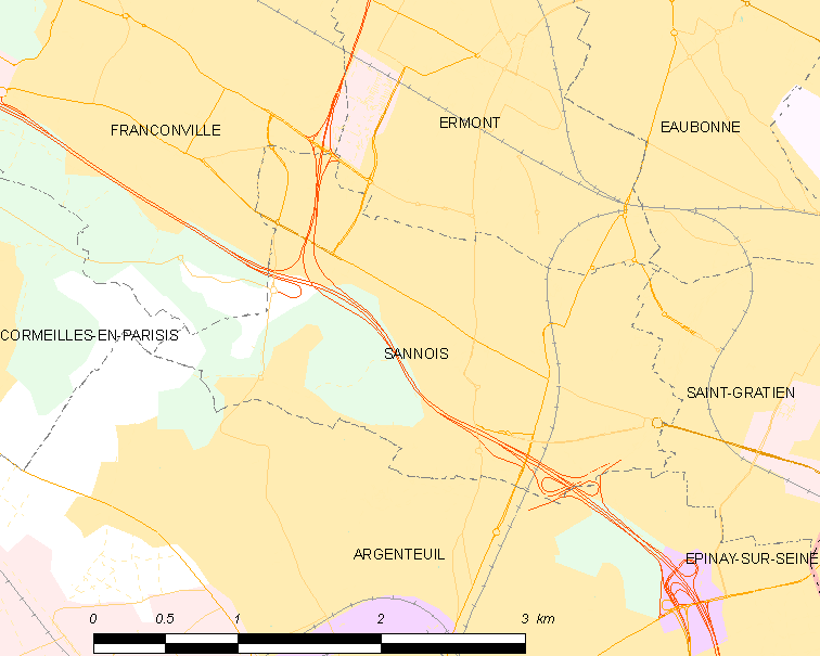 Map of French municipality Sannois